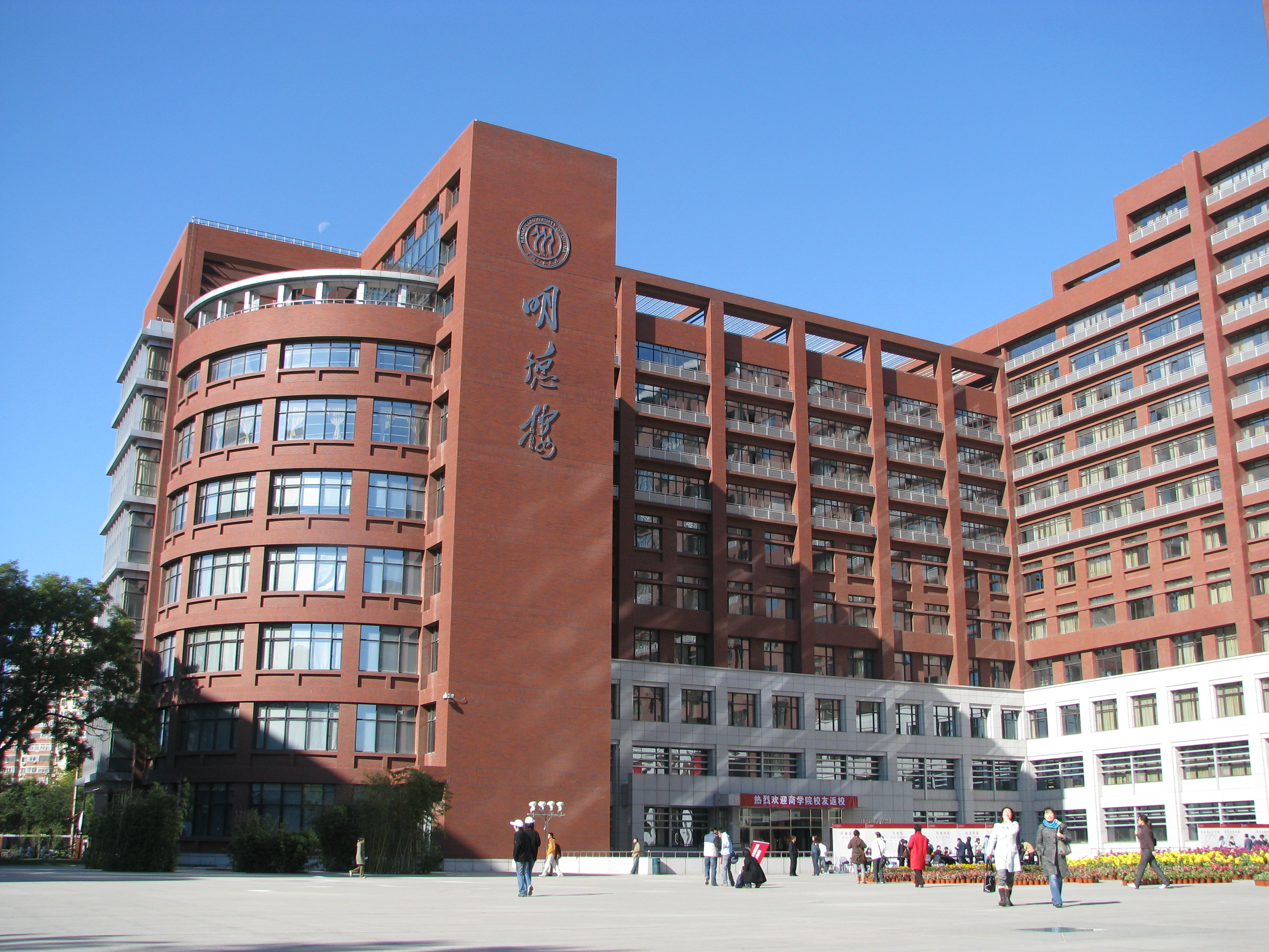 Mingde Complex